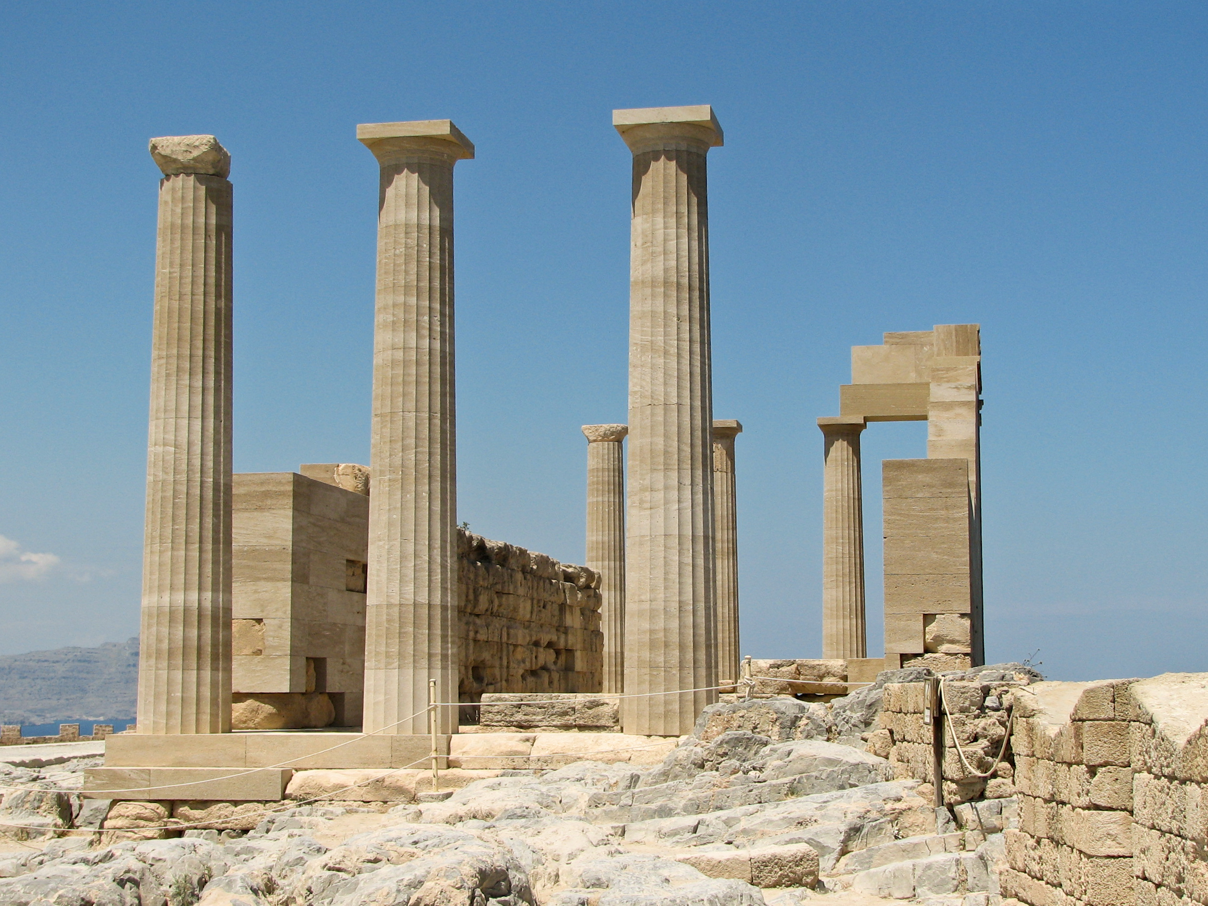 Acropolis of Lindos, Rhodes, Greece